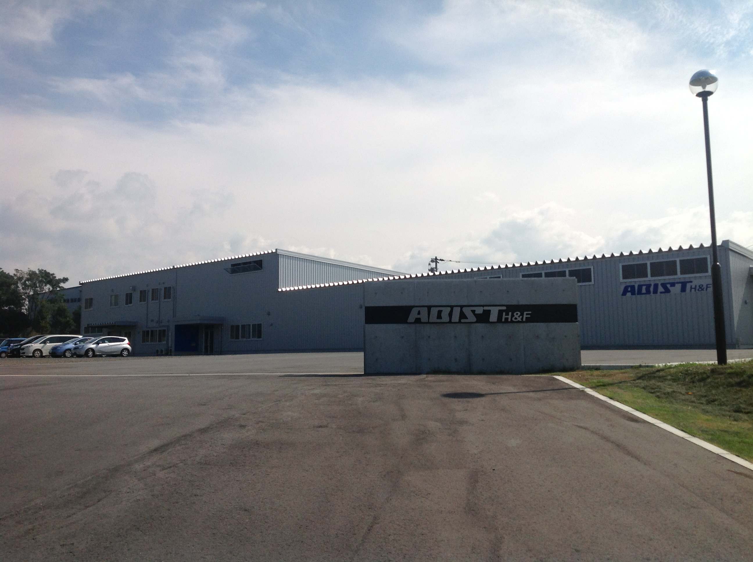 Headquarters of ABIST H&F Co., Ltd. in Kikuchi-city, Kumamoto